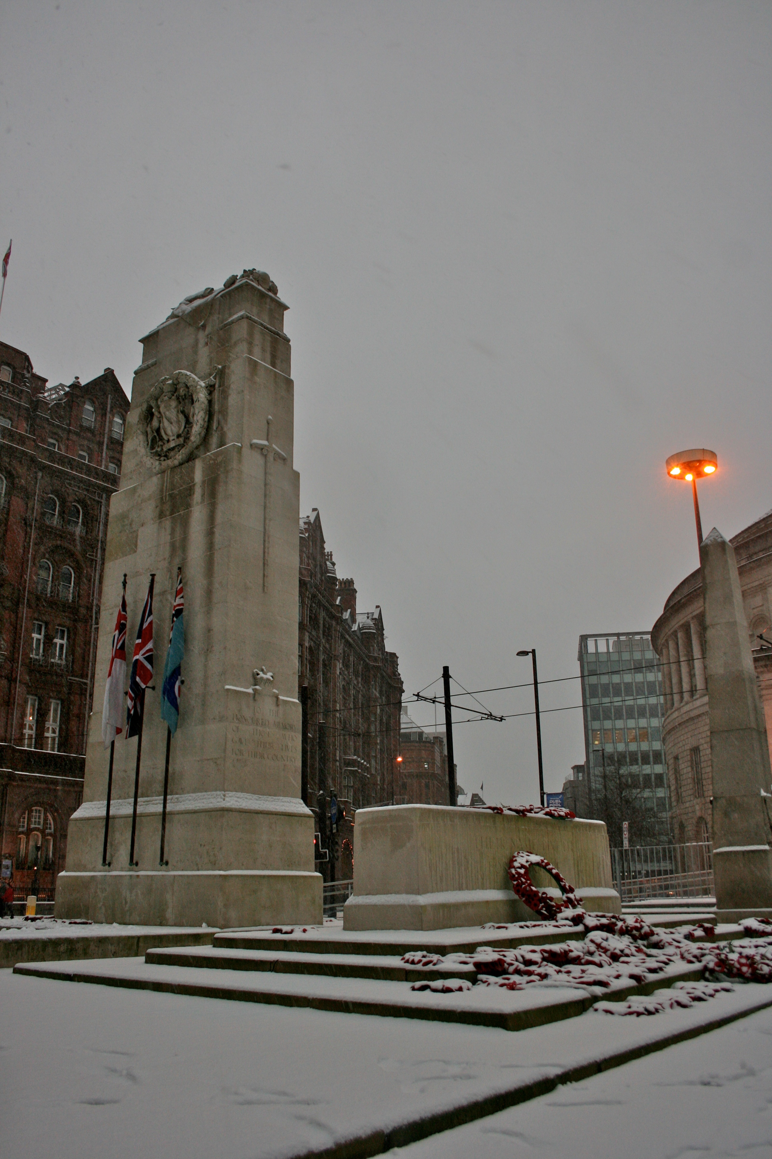 War Memorial in St Peters Square, Manchester, in snow